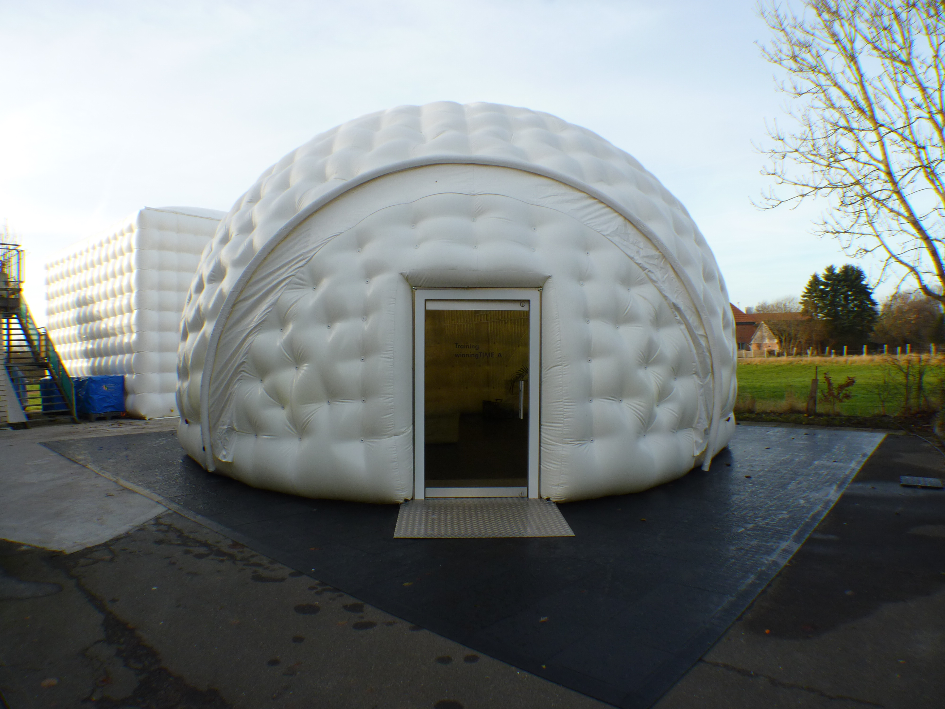 Airsupported Tent